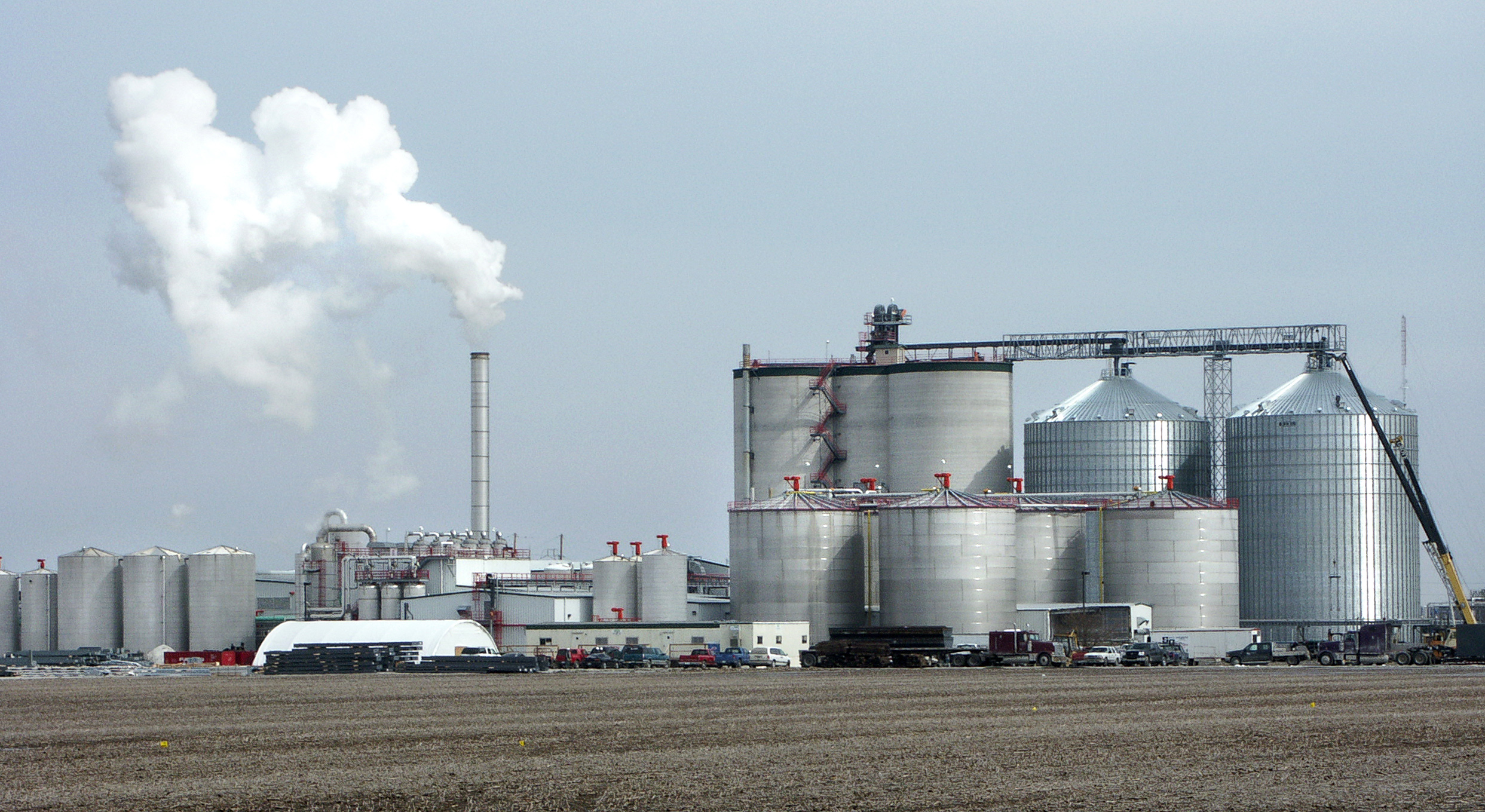 A typical ethanol plant in West Burlington, Iowa (Big River Resources, LLC).